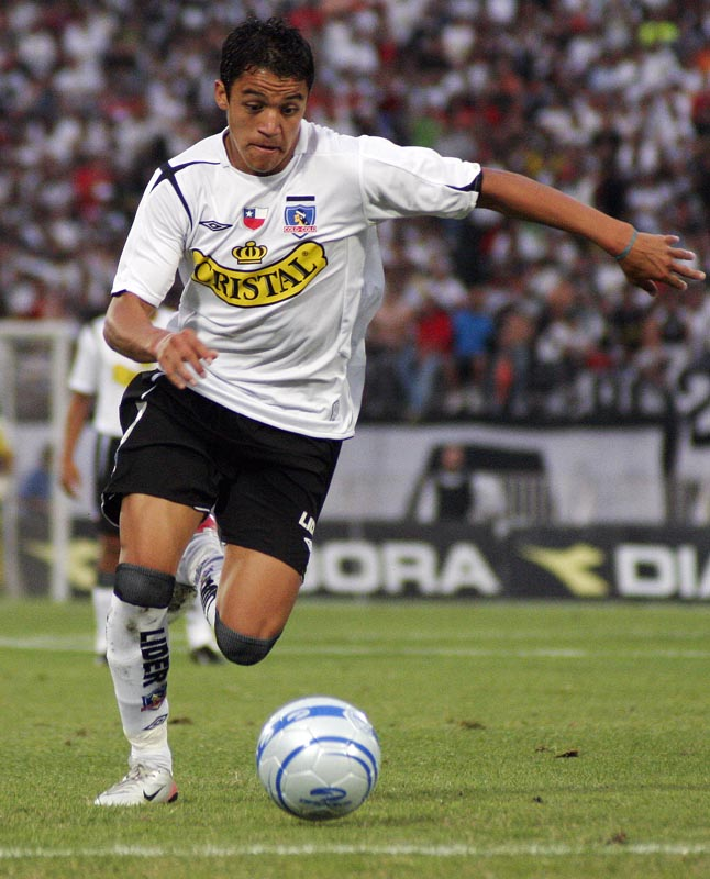 Alexis Sánchez, in the final of the 2006 Clausura Tournment of the Chilean football league, between Colo-Colo and Audax ItalianoColo Colo Campeon02